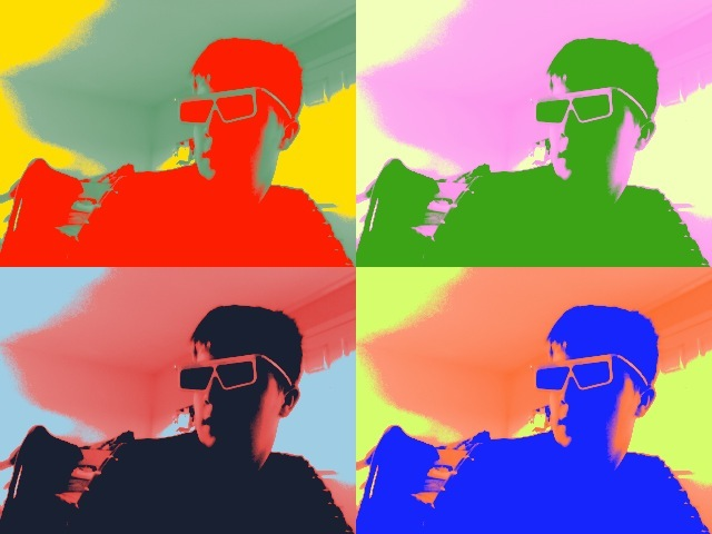 My Profile Picture - Also demonstrating a use of 4 (quad) pop-art